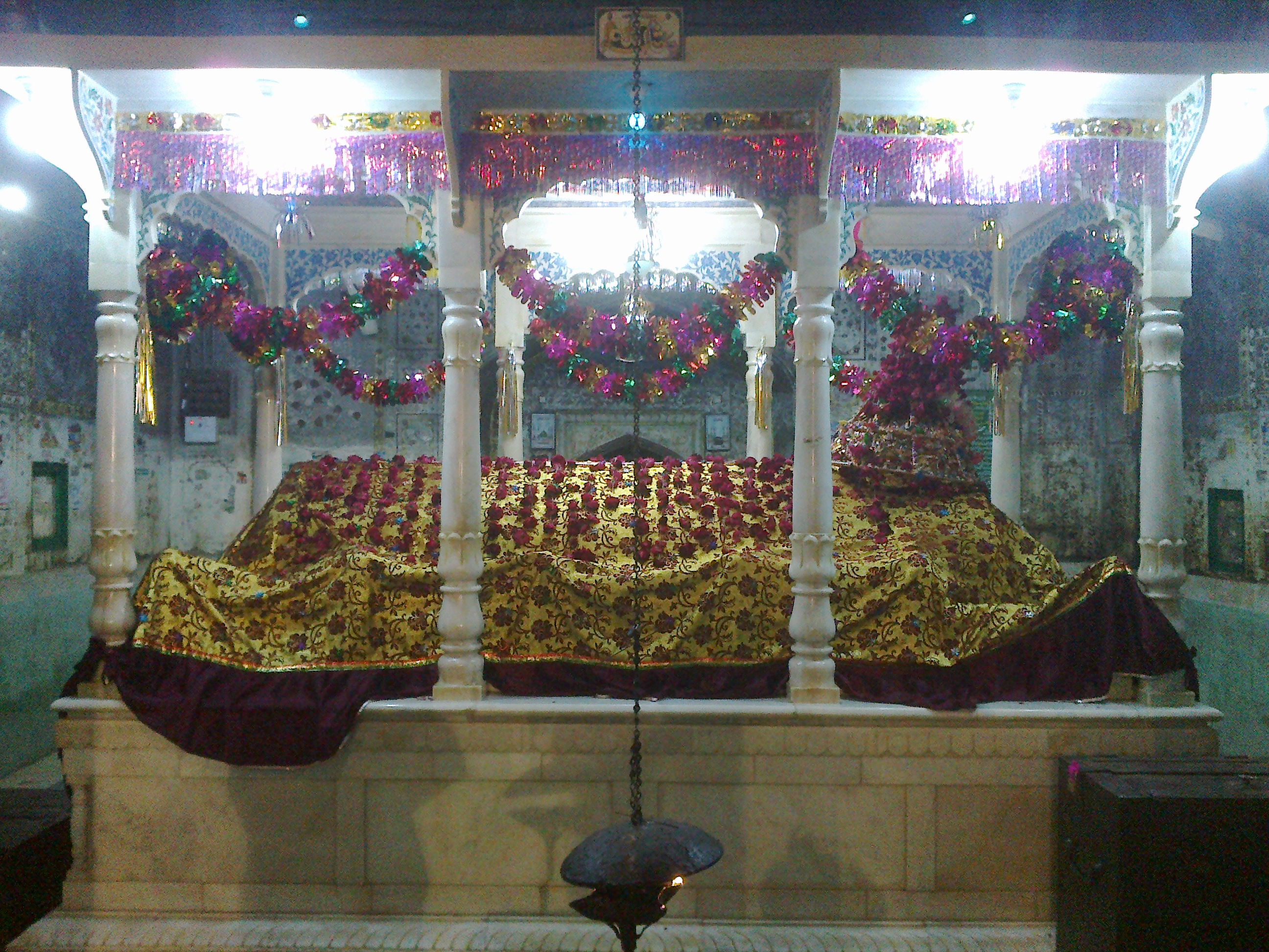 Annual Urs mubarak of Hazrat syed sakhi Zain ul Abideen is celebrated every year in the month of July, devotees in thousands comes from the different parts of the world to celebrate the Sang mela in Sarwar Shahkot Lar, 15 kilometer from the city of Multan.The devotees assembled here, paying homage (salam) to their great sufi saint of 11th century.The saint is a father of Hazrat syed Ahmad sultan also known as Sakhi sarwar.Afterwards they proceed to Sakhi Sarwar shrine to join the Vaisakhi Fair.